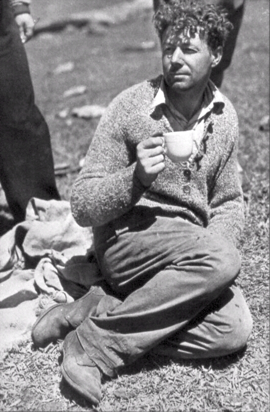 Alfonso Bernard O'Reilly enjoying a well-deserved cuppa after rescuing the Stinson survivors